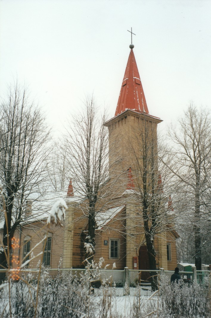 Bolderāja Evangelical Lutheran ChurchLatviešu: Bolderājas evaņģēliski luteriskā baznīca